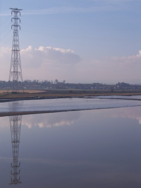 275 kV Forth Crossing. The southern pylon of the crossing, which along with the other structure on the north side of the Forth are the tallest pylons in Scotland.